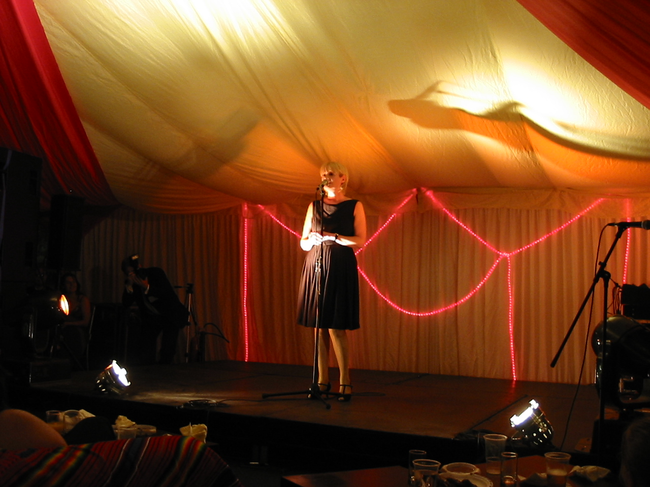 Hattie Hayridge treading the same stage we just vacated!